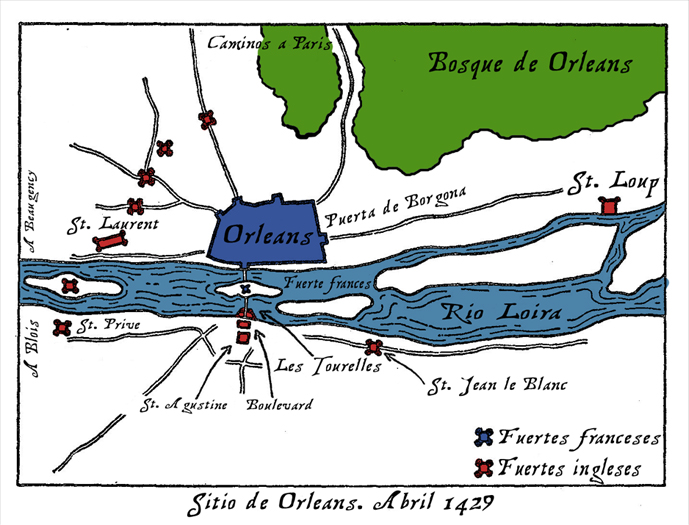 Siege of Orleans